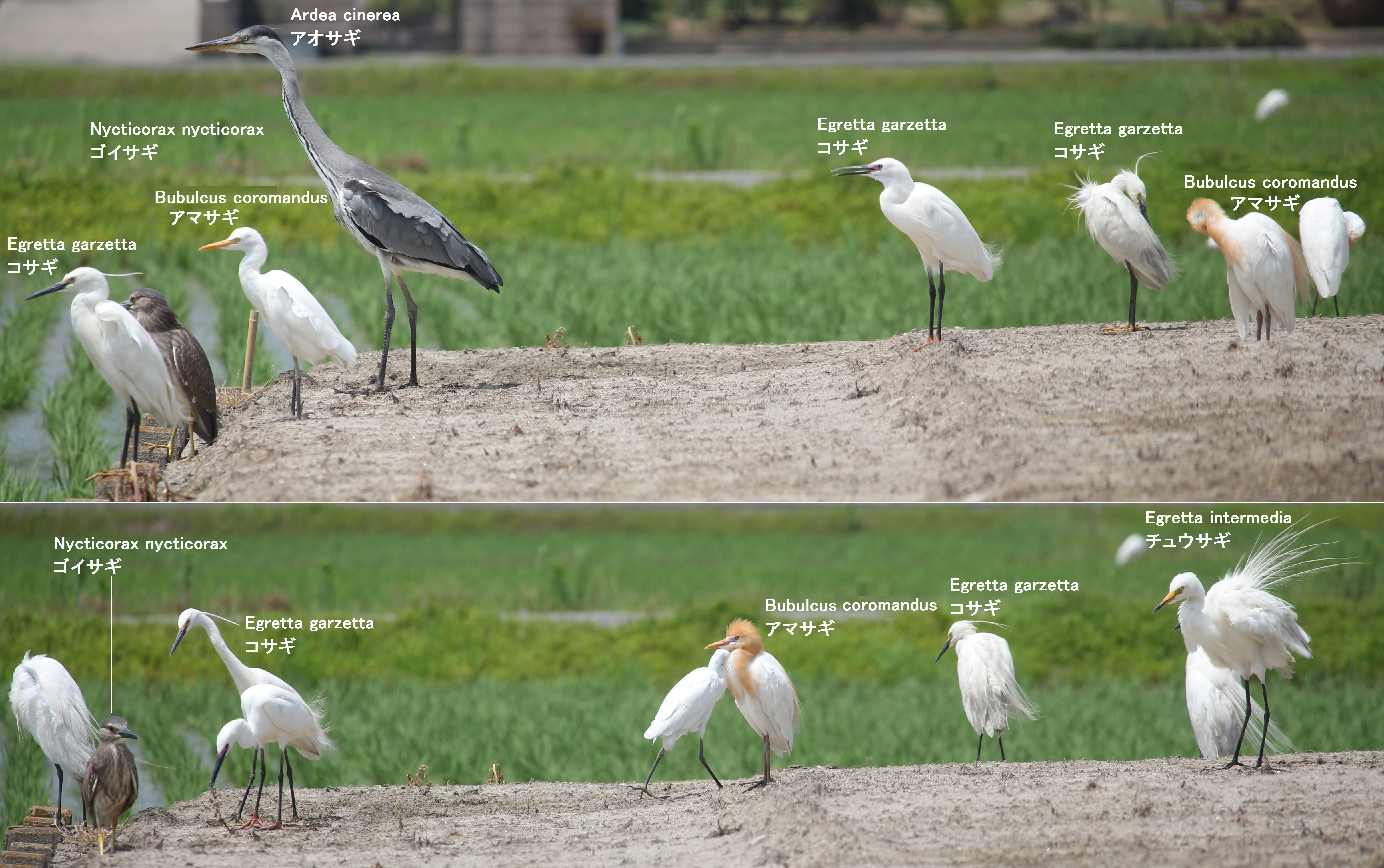 Upper - Egretta garzetta, Nycticorax nycticorax, Bubulcus coromandus and Ardea cinerea, in Aichi prefecture, Japan. Lower - Nycticorax nycticorax, Egretta garzetta, Bubulcus coromandus and Egretta intermedia, in Aichi prefecture, Japan.